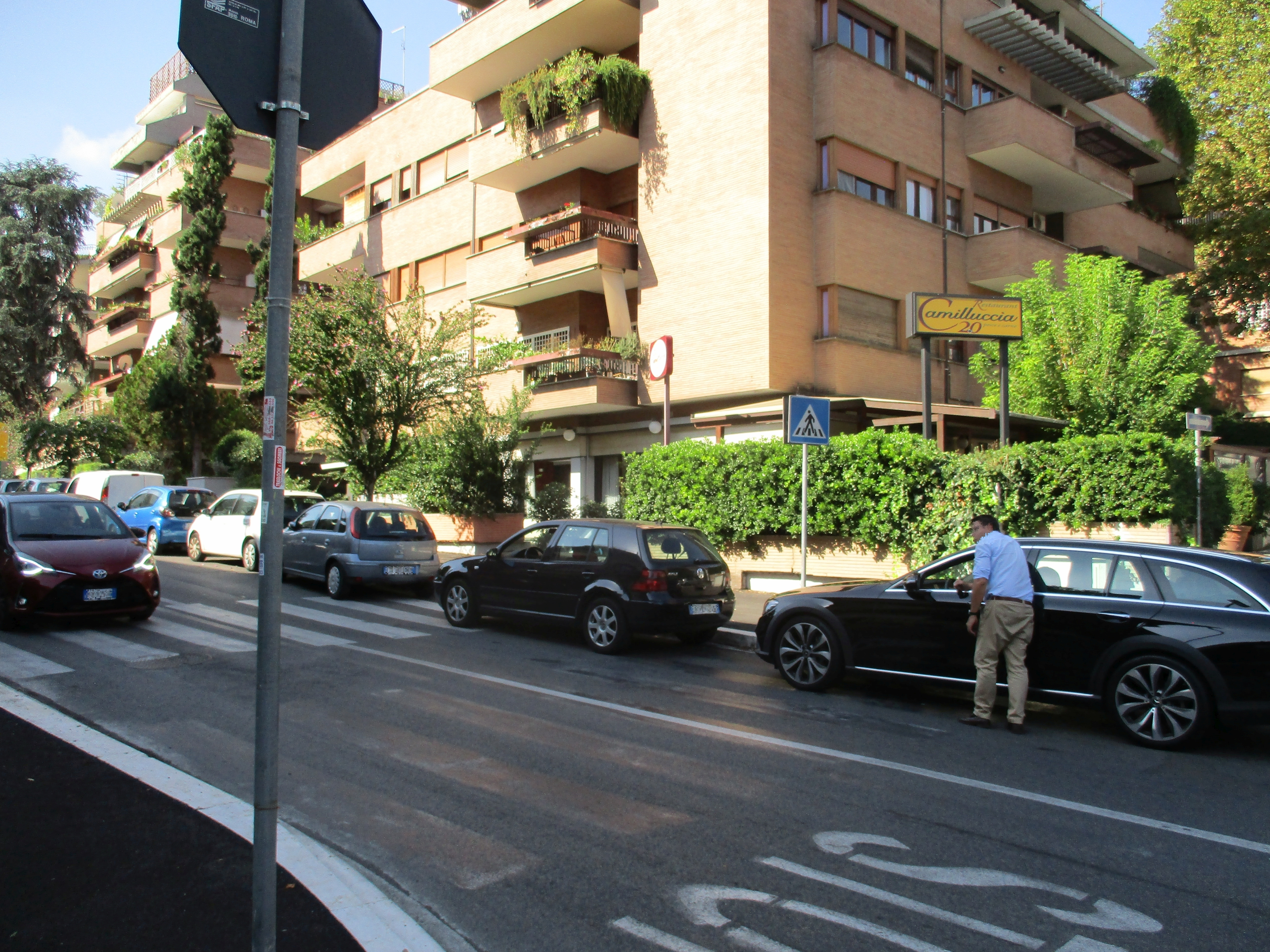 Via Mario Fani in Rome; on 16 March 1978 a unit of the Red Brigades (Italian: Brigate Rosse) kidnapped Aldo Moro in this crossing (Via Stresa).